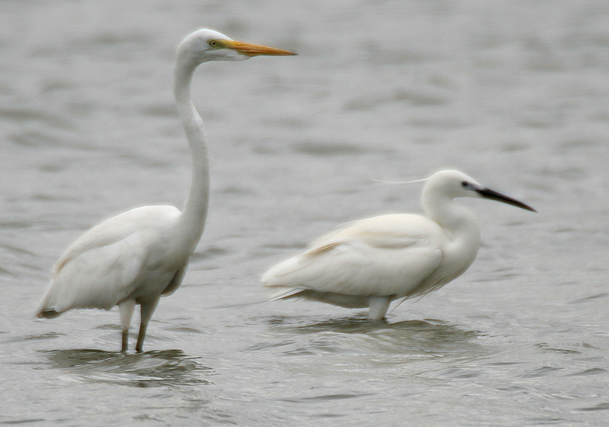 Little Egret Egretta garzetta - Sind: Bararo, Hindi: Kilchia or Karchia bagla, Sans: Shudra balaka, Pun: Bauna bagia, Ben: Chota korche bak Ass: Bamoni bog, Teteri bog, Guj: Kilichio, Nano dhol bagalo, Mar: Lahan bagla, Chota pisal bagla, Udanch, Ta: Chinna vellai kokku, Te: Chinna tella konga, Mal: Chinna munti, Kan: Sanna bellakki, Sinh: Sudu kokka- with Eastern Great Egret Ardea modesta- Sind: Baglo achho, Hindi: Tar bagala, Bada bagala, Malang bagla, Turra bagla, Sans: Prasch jesht bagla, Pun: Wadda bagla, Ben: Dhar bak, Bada bak, Ass: Bor bog, Mani: Loklenba, Gond: Mala konga, Guj: Moto safed baglo, Moto dholo bagalo, Mar: Mor bagla, Thorla bagla, Ori: Bada baga, Ta: Periya vellai kokku, Nedalai, Te: Pedda tella konga, Mal: Perumunti, Kan: Dodda bellakki, Sinh: Loku sudu kokka, Badadel kokka- at Pocharam lake, Andhra Pradesh, India.